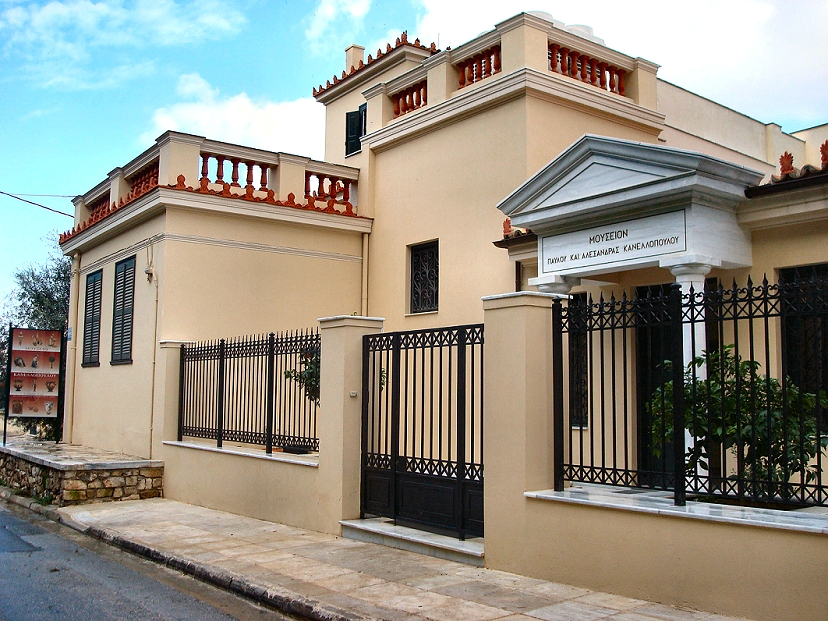 Exterior of the Museum of Pavlos and Alexandra Kanellopoulou